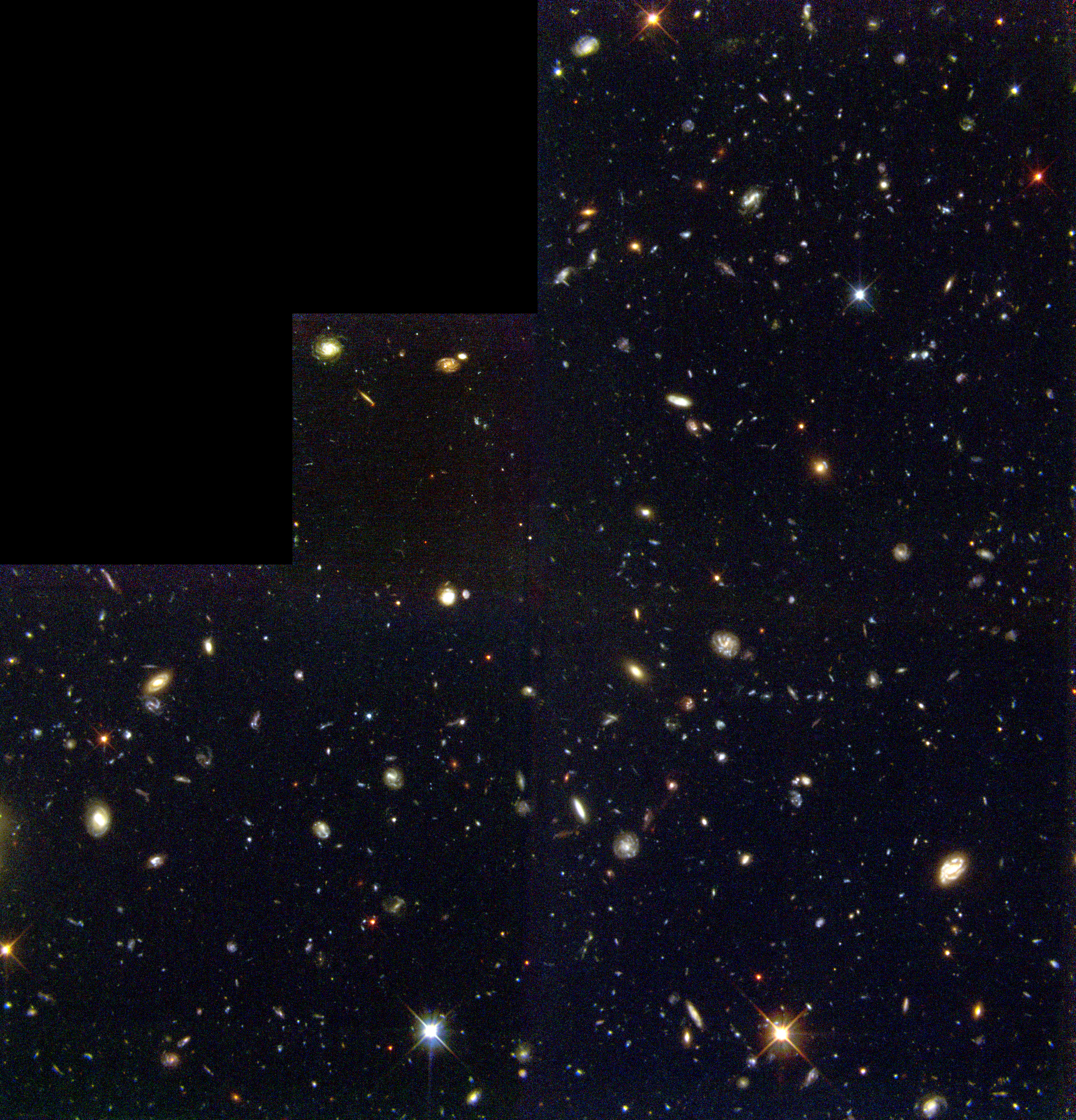 The deepest visible/ultraviolet light image of the universe ever taken, revealing galaxies down to 30th magnitude. Glaring fiercely across 12 billion light-years of space is the brilliant beacon of a distant quasar (z=2.2). Most of the galaxies in this view lie between us and the quasar. The image was taken with the camera on the Space Telescope Imaging Spectrograph (STIS). The STIS recorded how numerous invisible intervening clouds of hydrogen gas affected the quasar's light. Some of the galaxies in the image may be linked to these clouds.